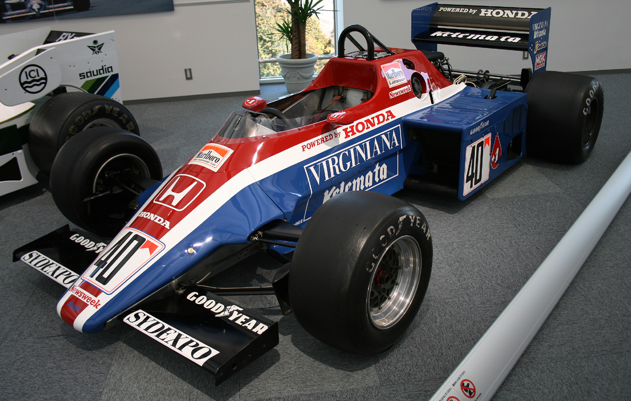 Spirit 201C (#6 Stefan Johansson)